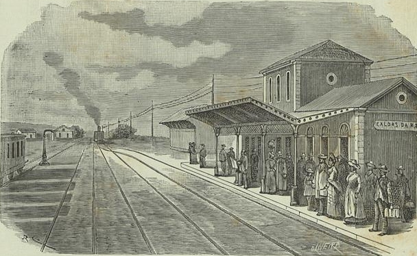 Drawing of the Caldas da Rainha Railway Station, in Portugal, inaugurated on the 1st of August 1887. This image was originally published in the Occidente magazine No. 319, of the 1st November 1887, and scanned by the Hemeroteca Municipal de Lisboa.